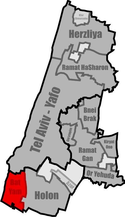 Location map of Bat Yam within the Tel Aviv District.